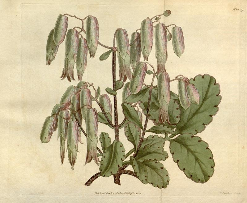 Abbildung von Bryophyllum calycinum im Botanical Magazin Band 34, Tafel 1409